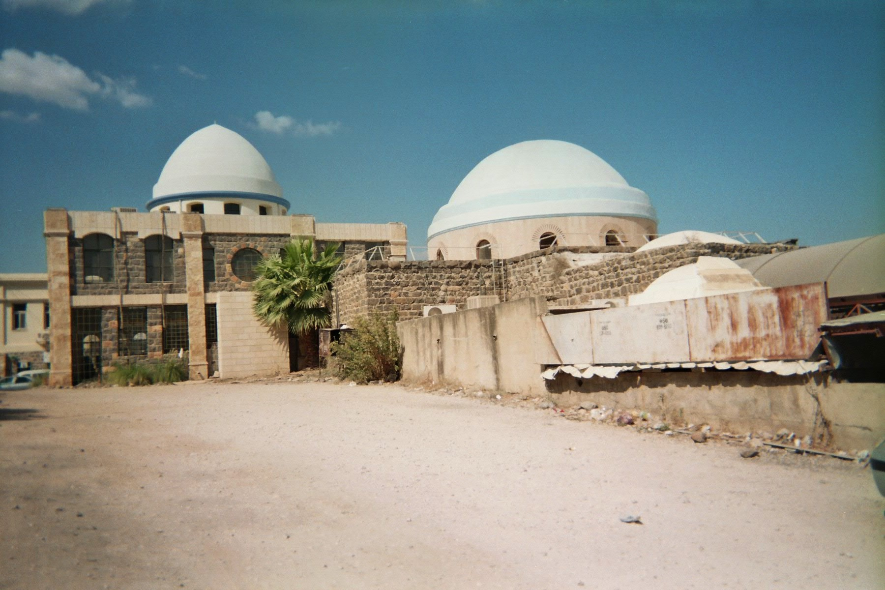 Israel Tiberias Rabbi Meir Baal HaNes tomb